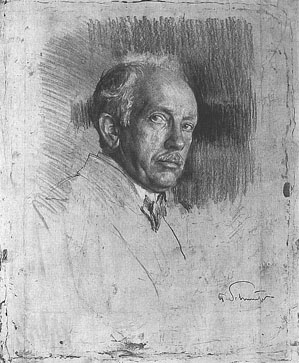 Engraved portrait of composer Richard Strauss